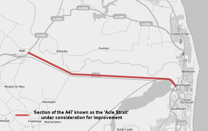 The section, in red, of the A47 known as the 'Acle Straight' for which there are proposals for widening/duelling. Overlaid on OpenStreetMap data.